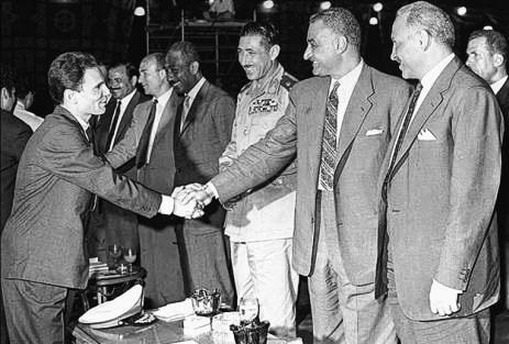 Egyptian singer Abdel Halim Hafez shaking hands with President Gamal Abdel Nasser and congratulating him on the founding of the United Arab Republic between Egypt and Syria. To Nasser's left is Abdel Latif Boghdadi. To Nasser's right is Abdel Hakim Amer, Anwar Sadat, Zakaria Mohieddin and Kamel el-Din Hussein